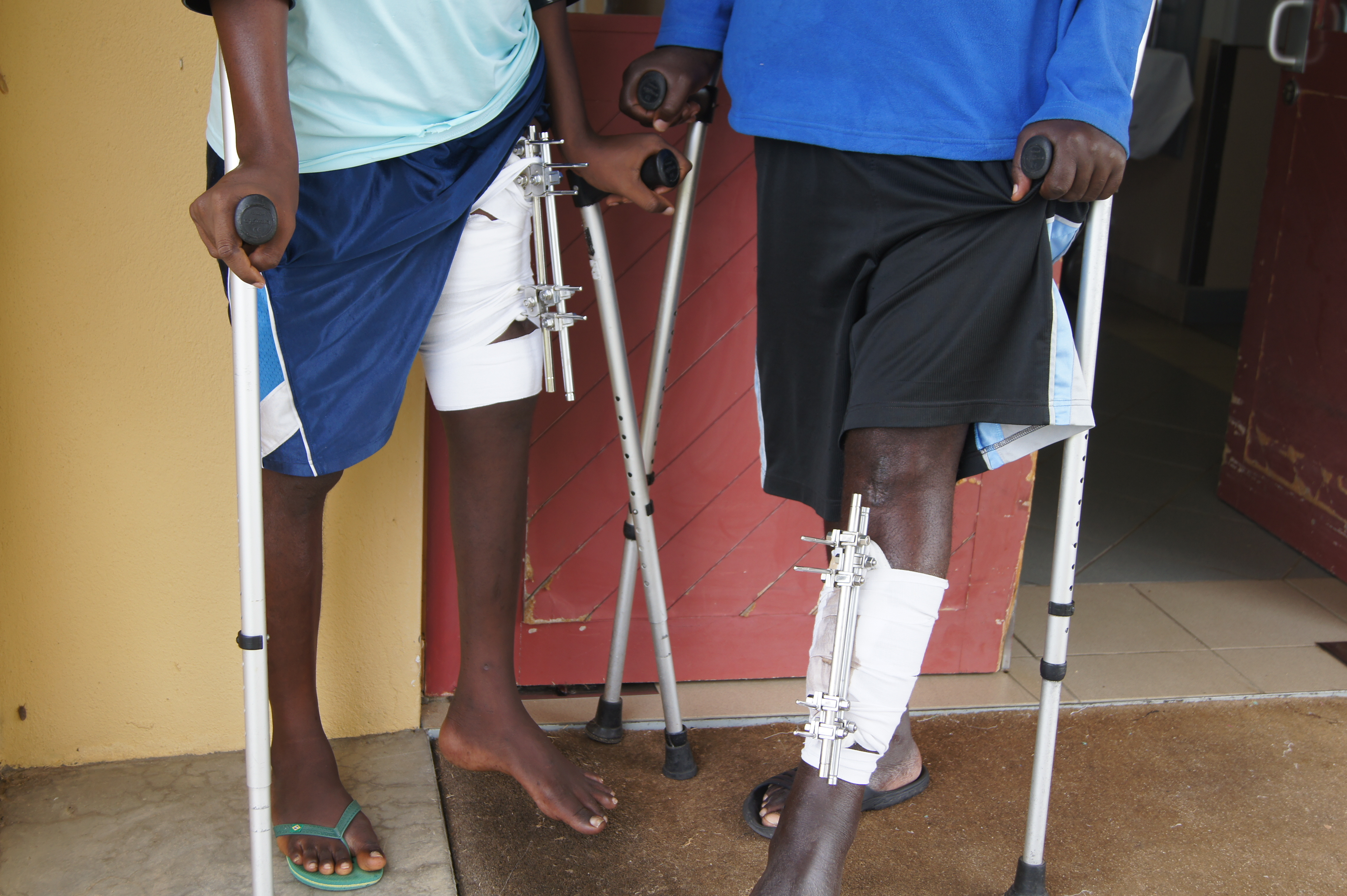 Patient with external fixator in Angola This is an image with the theme "Africa on the Move or Transport" from: Angola